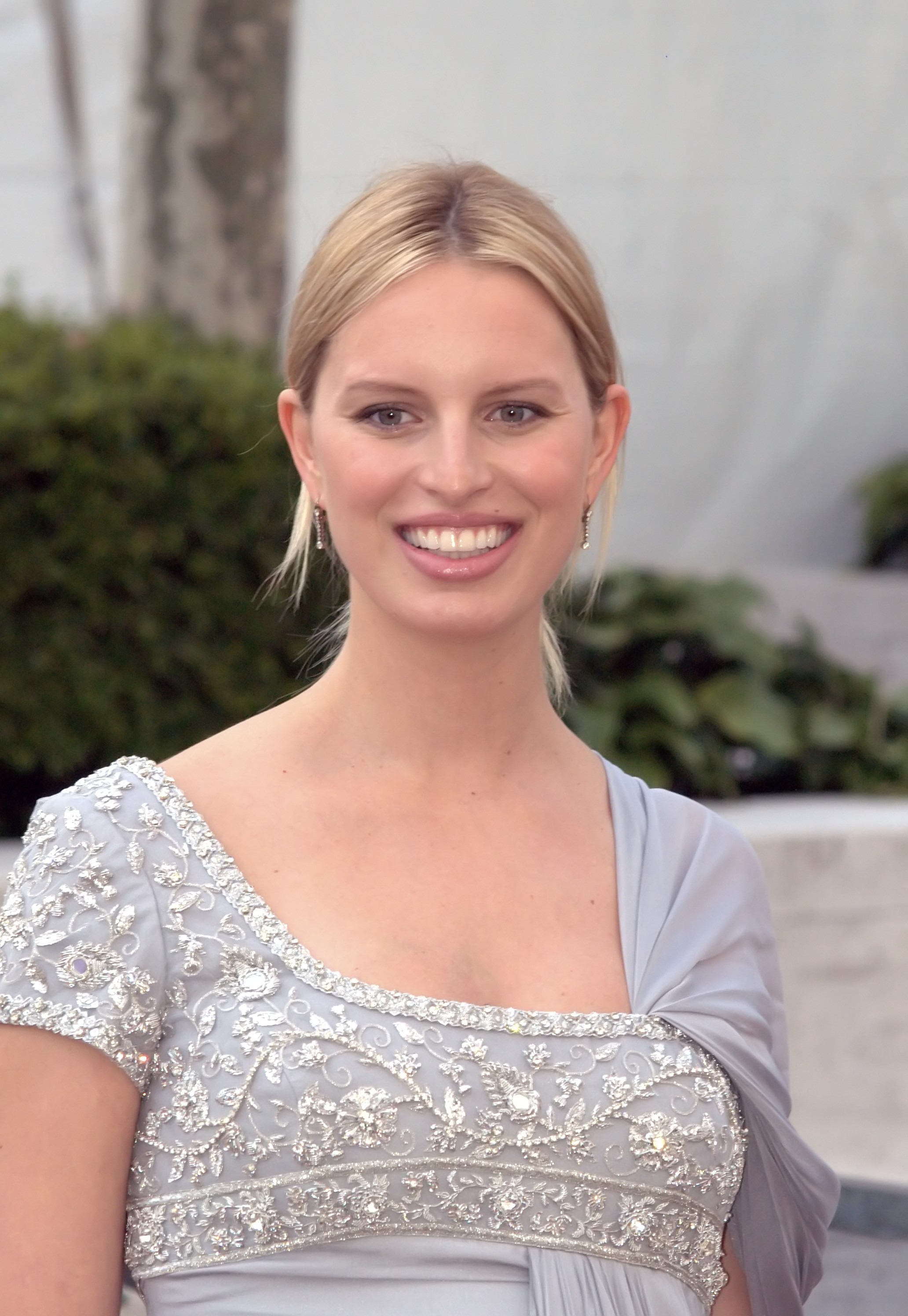 Karolína Kurková at the 2009 premiere of the Metropolitan Opera in New York City. Photographer's blog post about event and photograph.